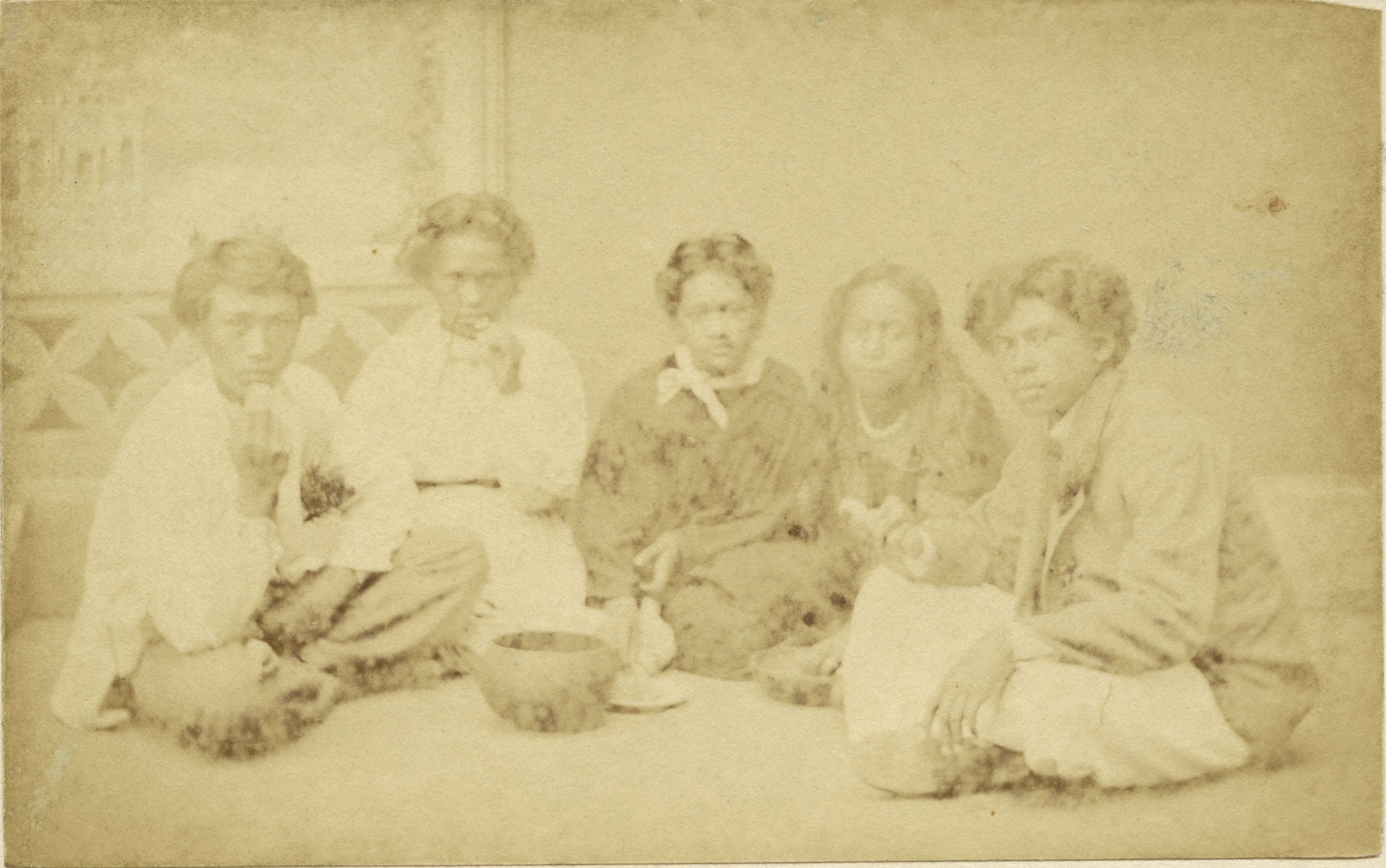 Inscriptions: Inscribed - Verso - Hawaiians eating Poi. Quantity: 1 b&w original photographic print(s). DC Rights: Not restricted Part of: Haast family :Photographs / Portraits of scientists Format: 1 b&w original photographic print(s), Albumen photoprints, Cartes de visite, Portraits, Single photograph.